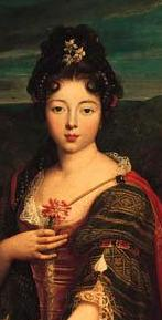 Detail of a portrait of Charlotte de Lorraine by Nicolas Fouché.